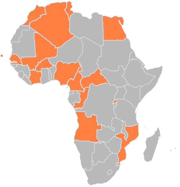 Participants of 2013 FIBA Africa Championship.